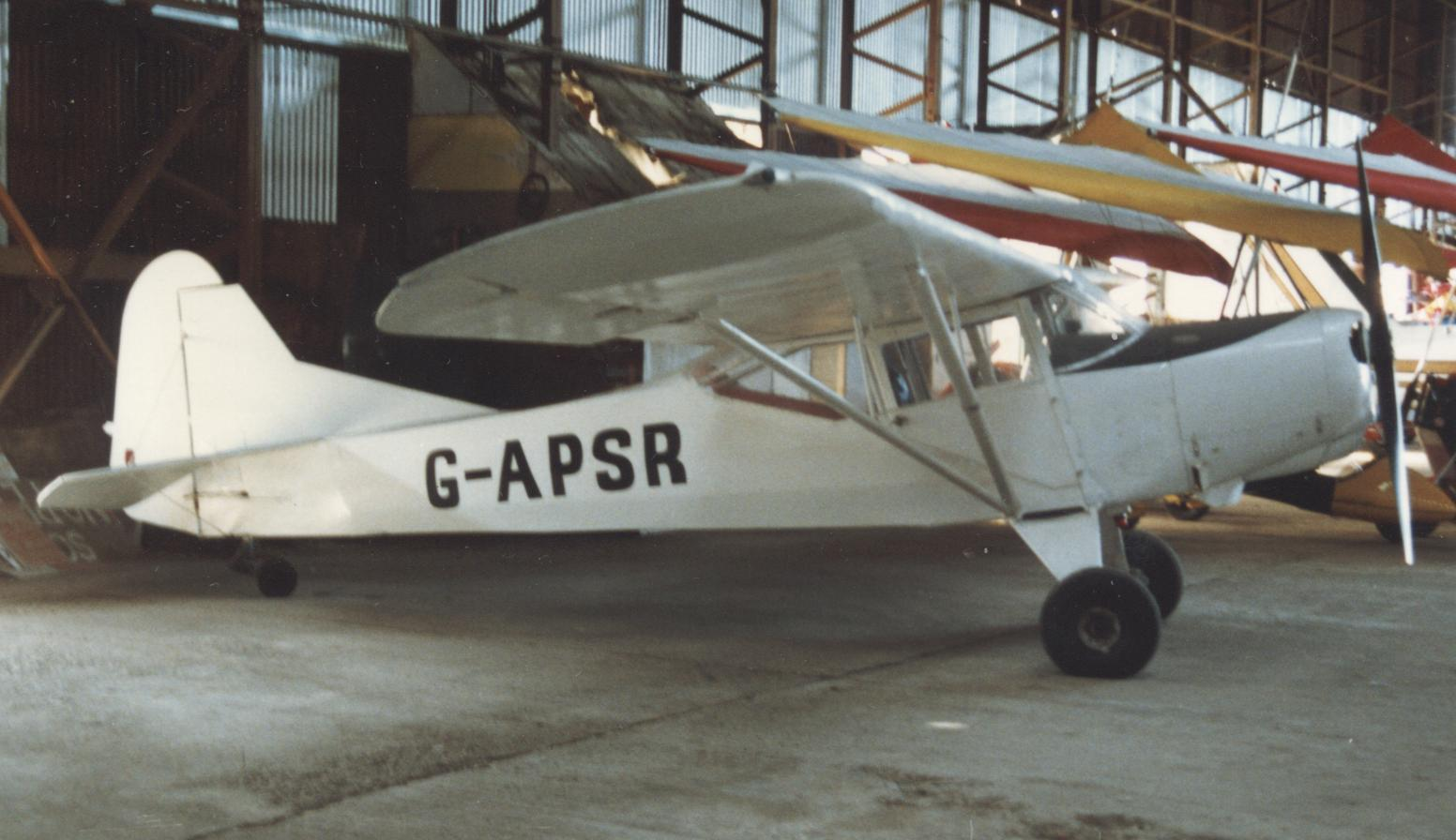 Auster J/1U Workmaster at Shobdon aerodrome, Herefordshire